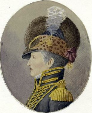 Col. Wade Hampton S. Ca.